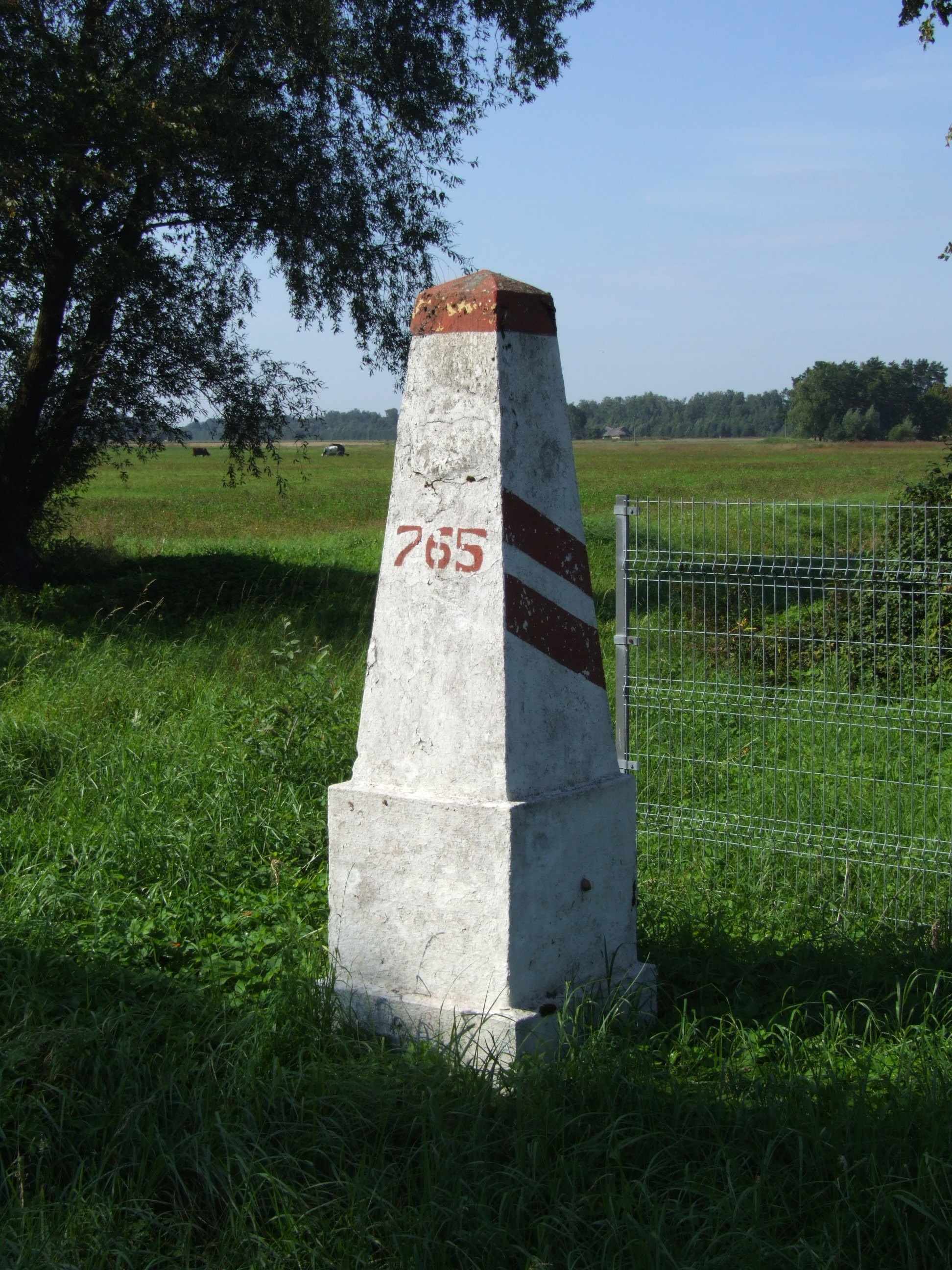 Latvian border stone in Meitene (border with Lithuania)